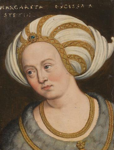 Margaret of Pomerania, 1st wife of Ernest the Iron of Austria